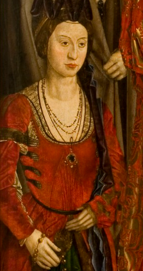 St. Vincent PNLS